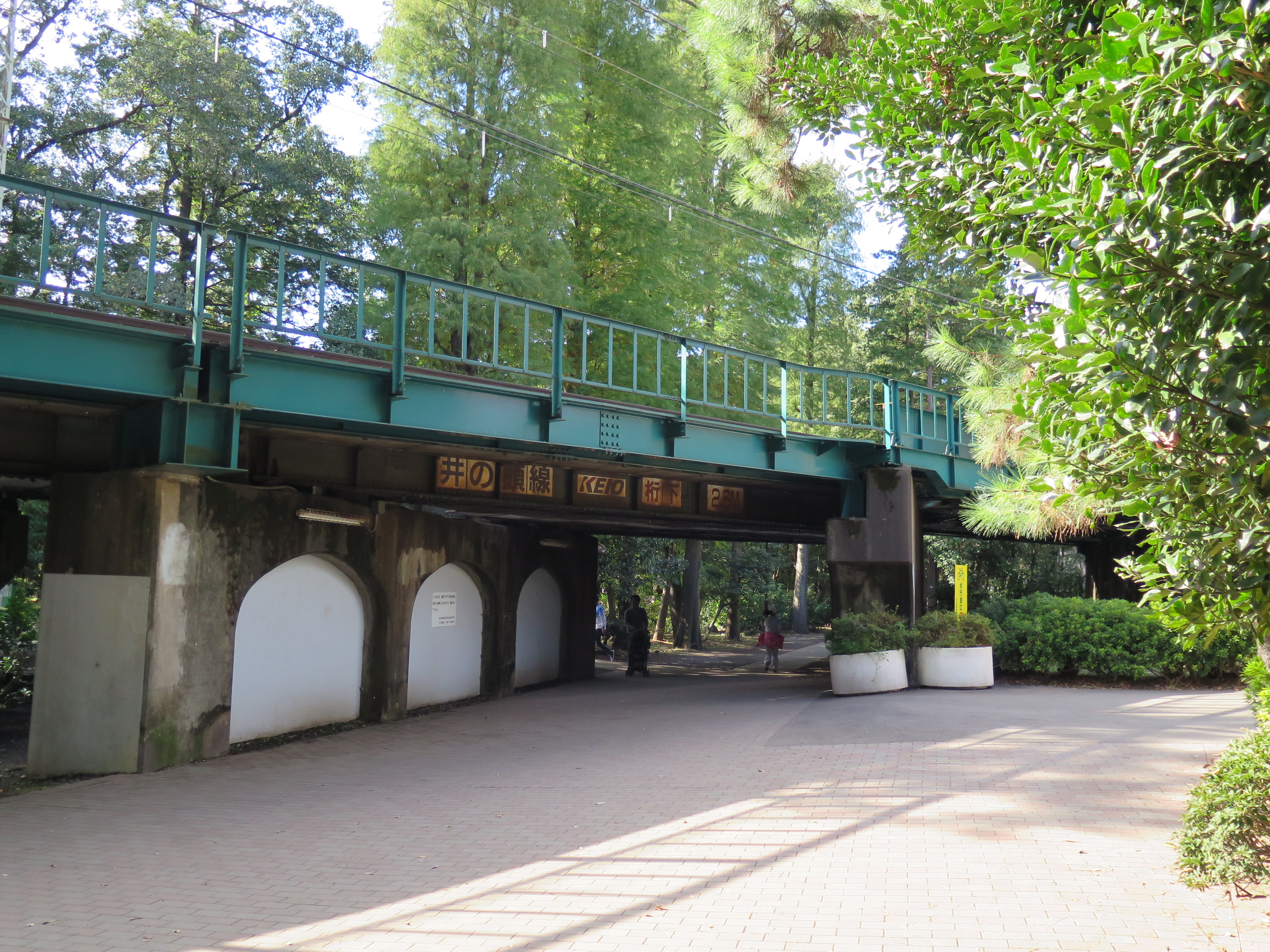 A small bridge in Inokashira Park atop which lies the Inokashira Line, a train line connecting Kichijoji with Shibuya.